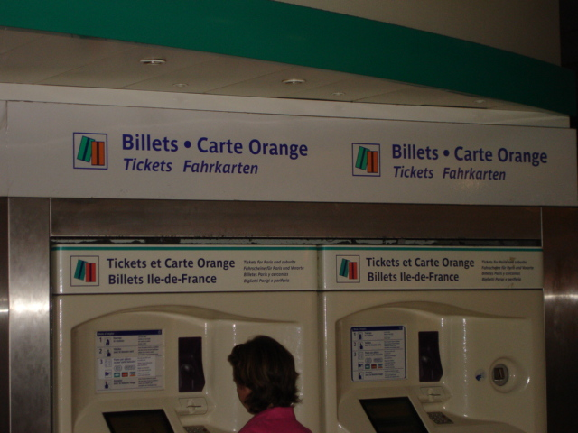 Automated machine at Paris Métro with French, English and German.